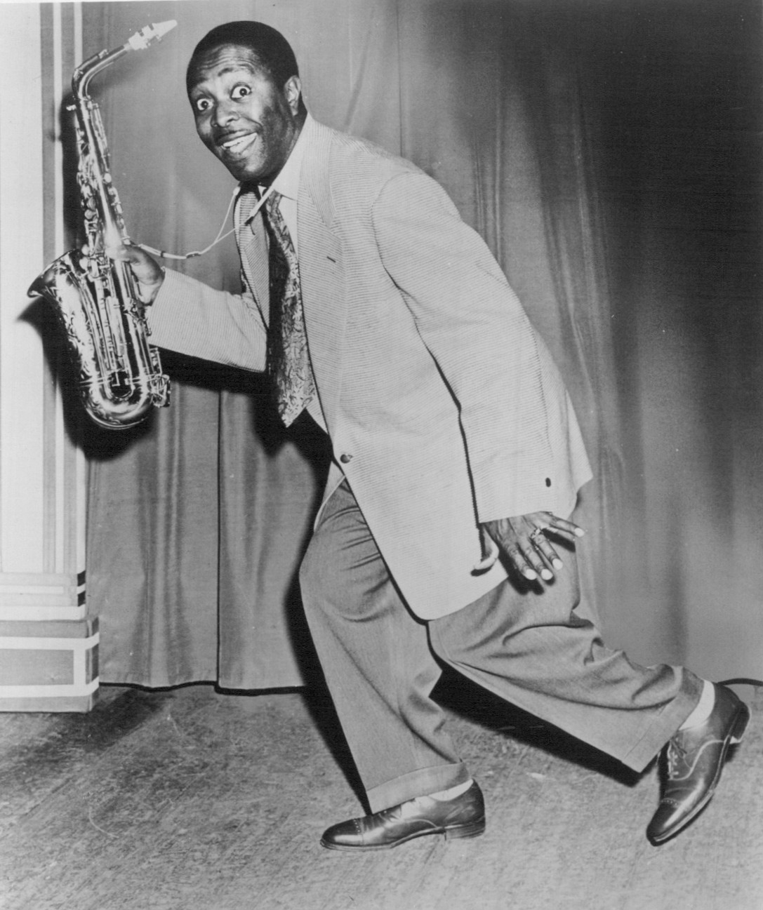 Photo of Louis Jordan from the variety television program Ford Star Revue.